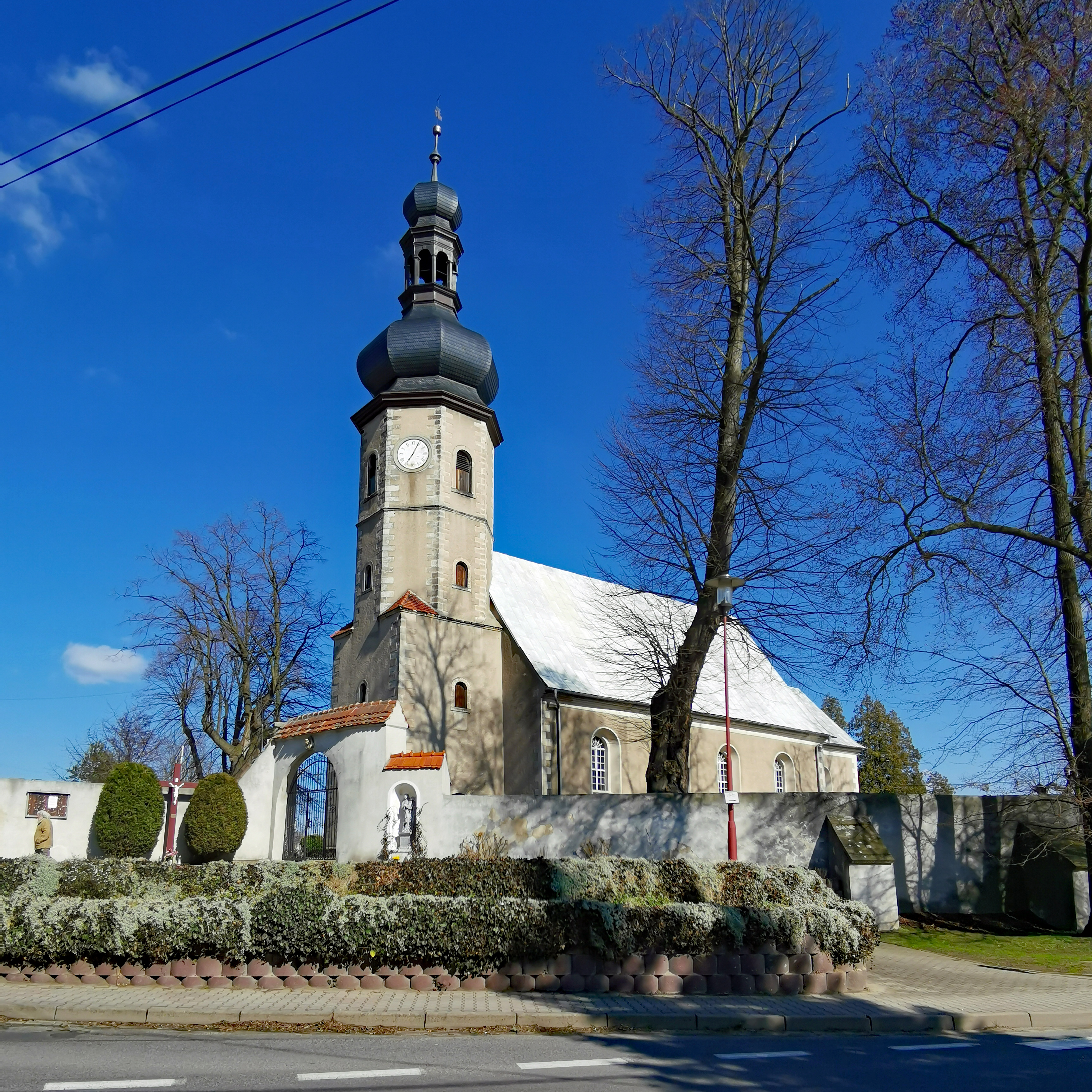 Nowogrodziec (Lower Silesian Voivodeship, Poland)